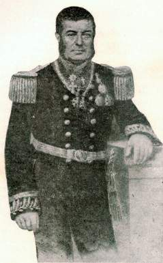 Joaquim José Inácio, Viscount of Inhaúma, c.1864